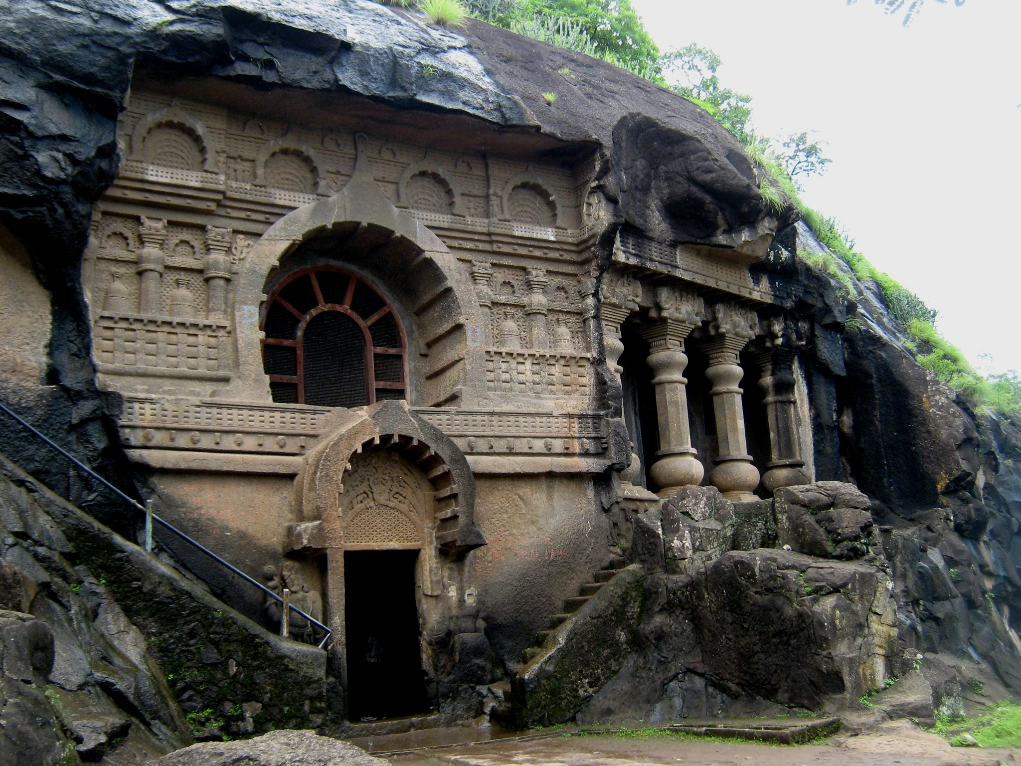 Pandava Caves, Nasik.